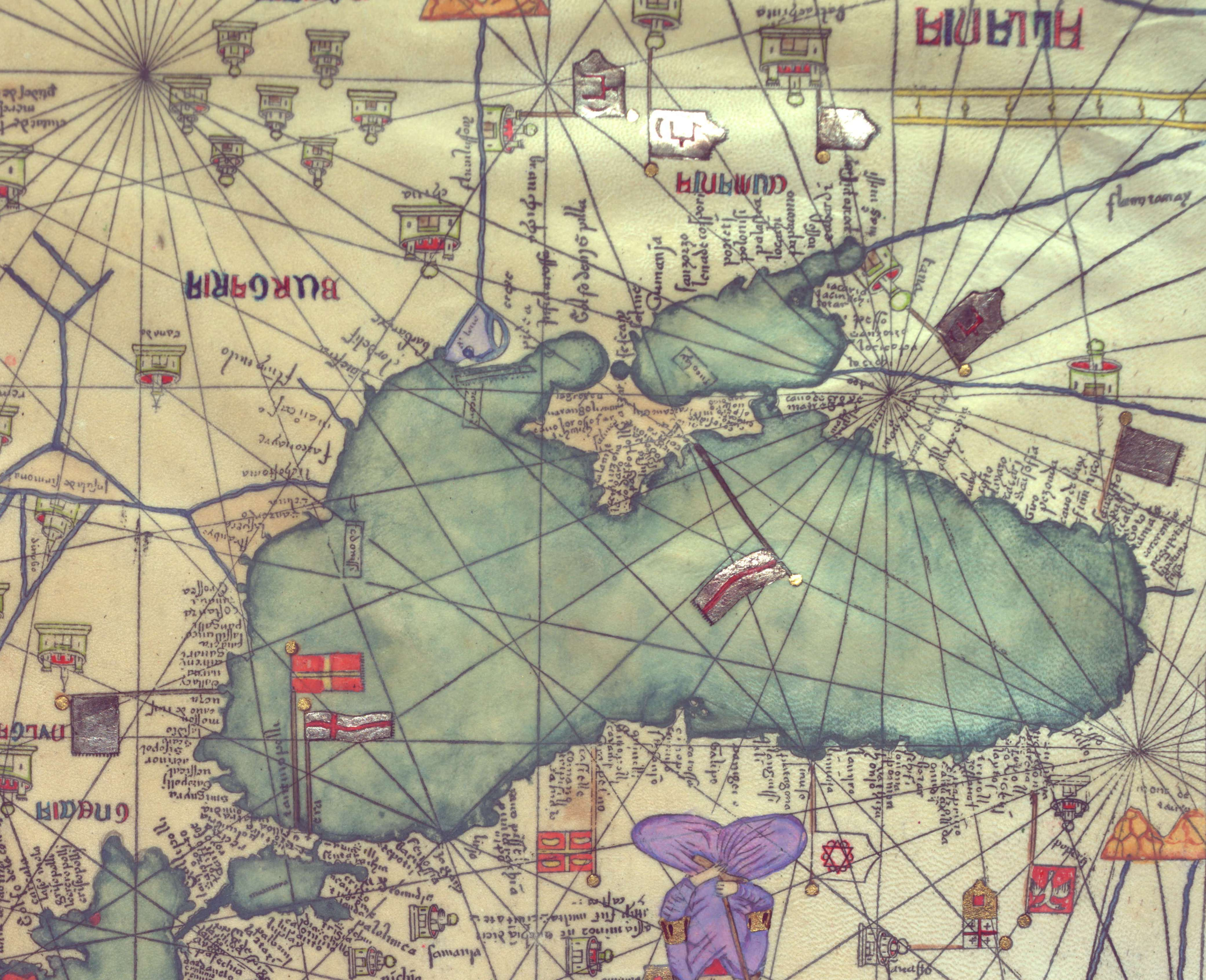 Map of eastern Europe, view from the south. Catalan Atlas reproduction.